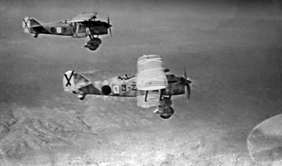 Guido Fibbia-Cieli di Spagna 1938